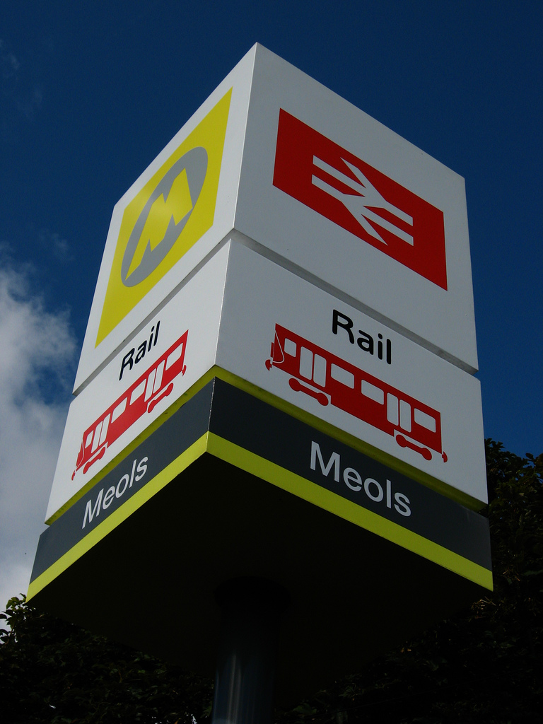 Station signage at Meols, Merseyside.